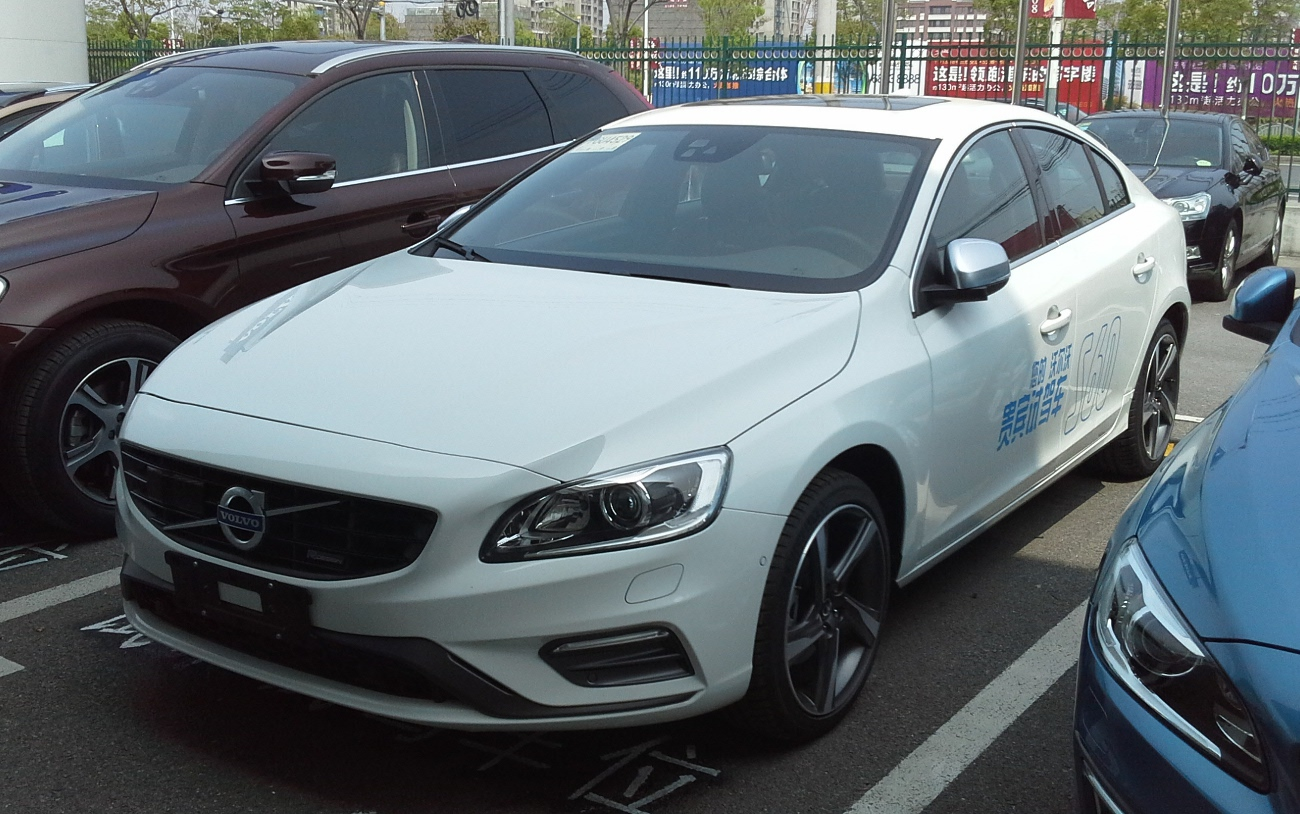 Volvo S60 Y20 facelift photographed in Shanghai, China.